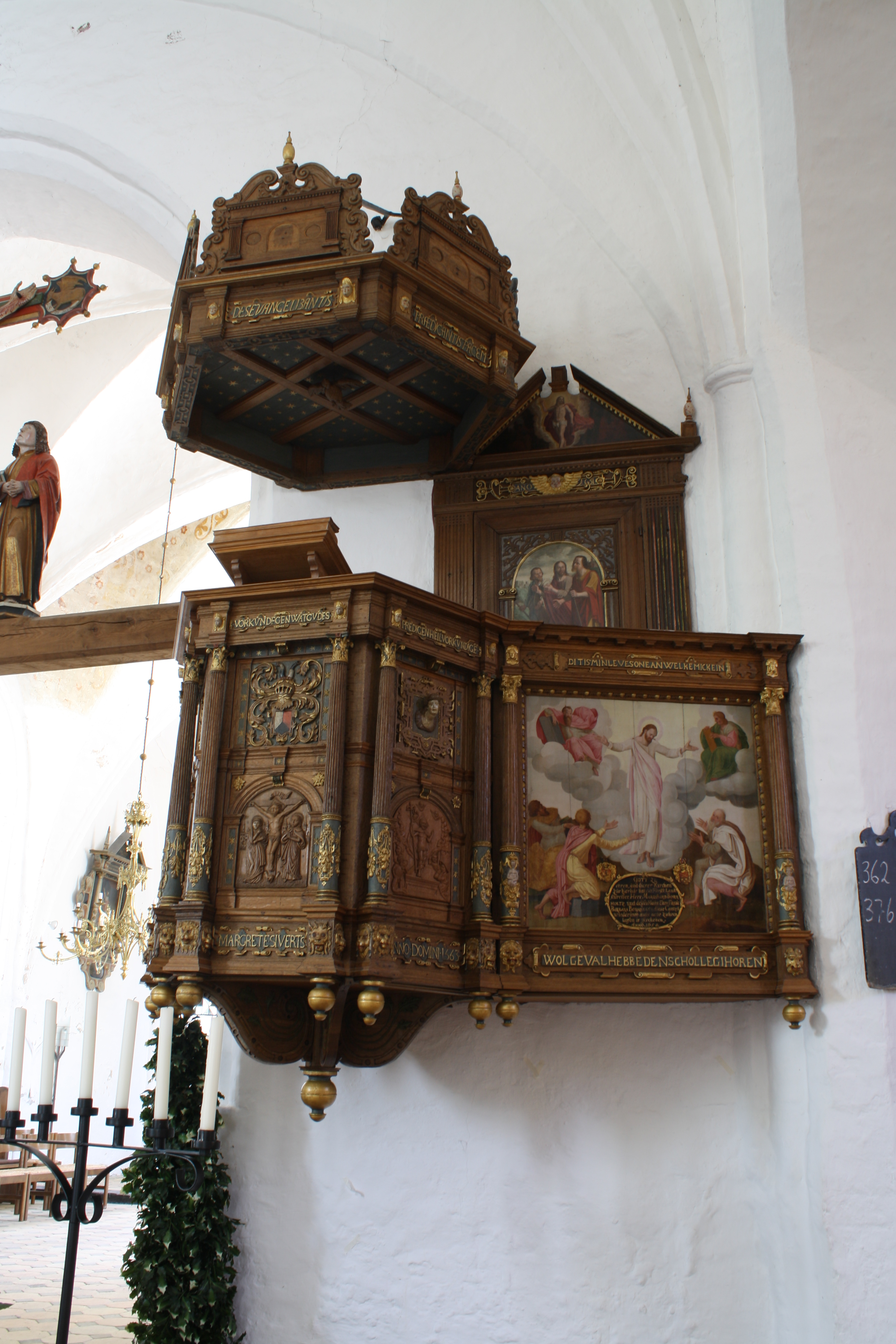 Pulpit of St. Christian, Garding, Germany